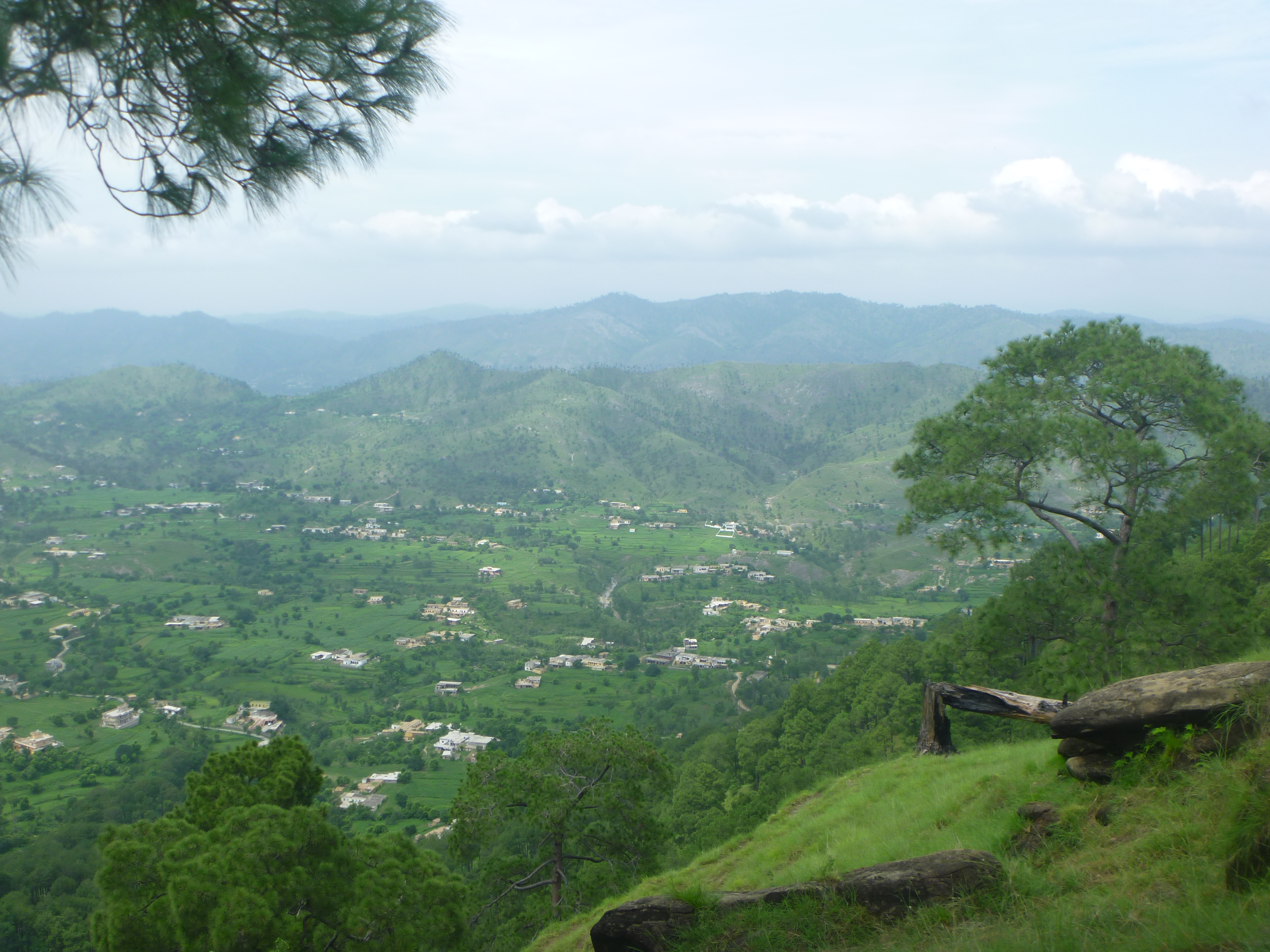 Picturesque View of Samahni Valley near Dub